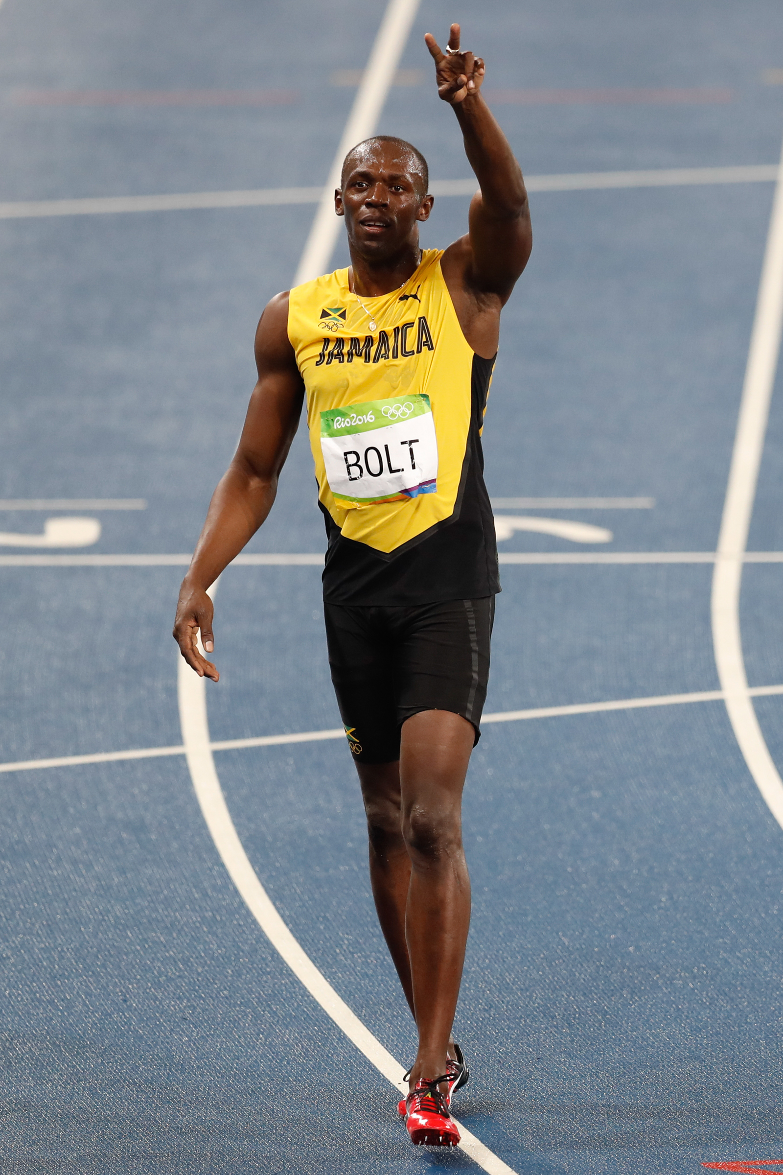 Rio de Janeiro - O Jamaicano Usain Bolt vence prova dos 200m rasos do atletismo e leva medalha de ouro nos Jogos Rio 2016, no Estádio Olímpico (Fernando Frazão/Agência Brasil)